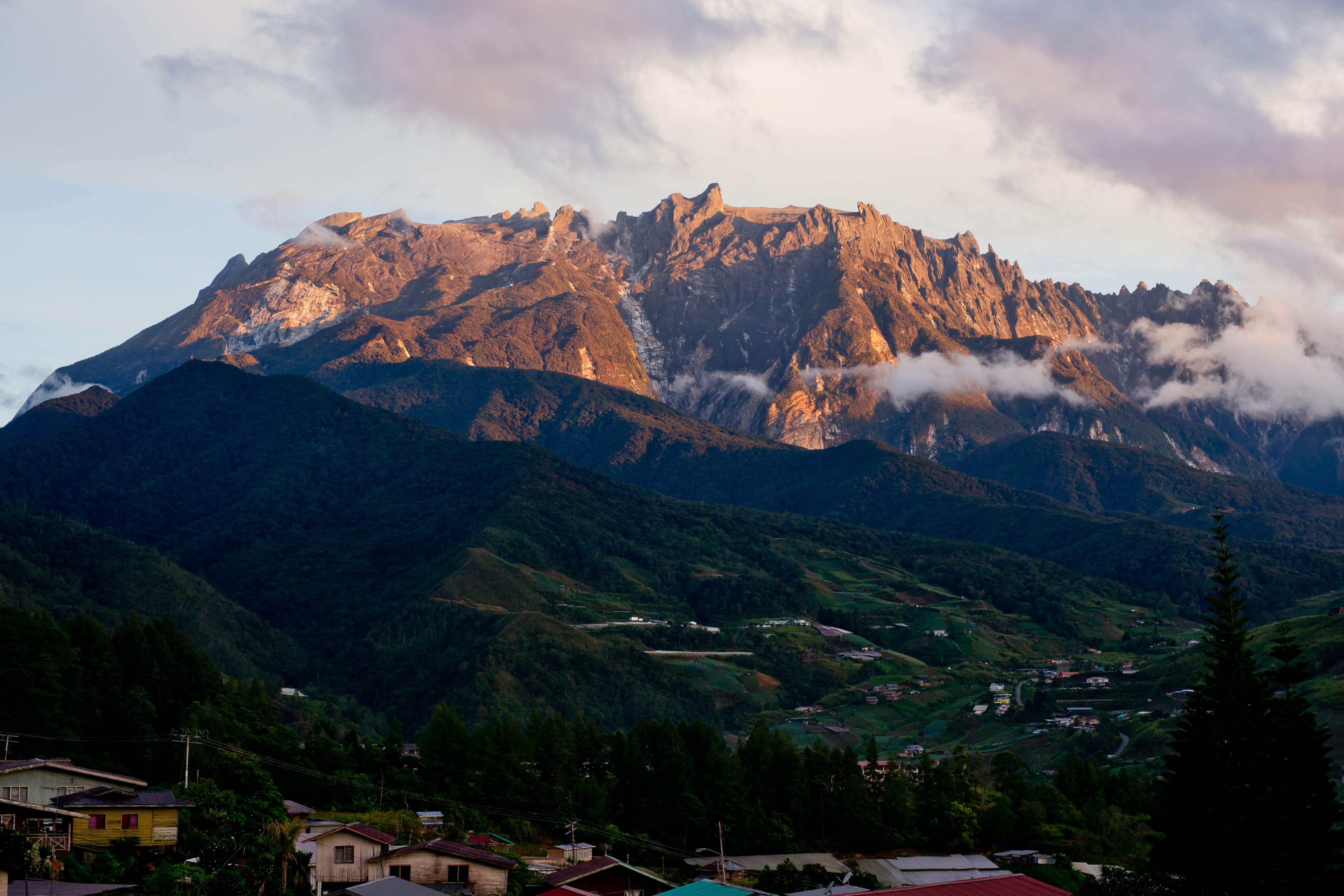 Sunrise illuminating the rocky peaks of Mt. Kinabalu (Sabah, Malaysia), as observed from the town of Kundasang.